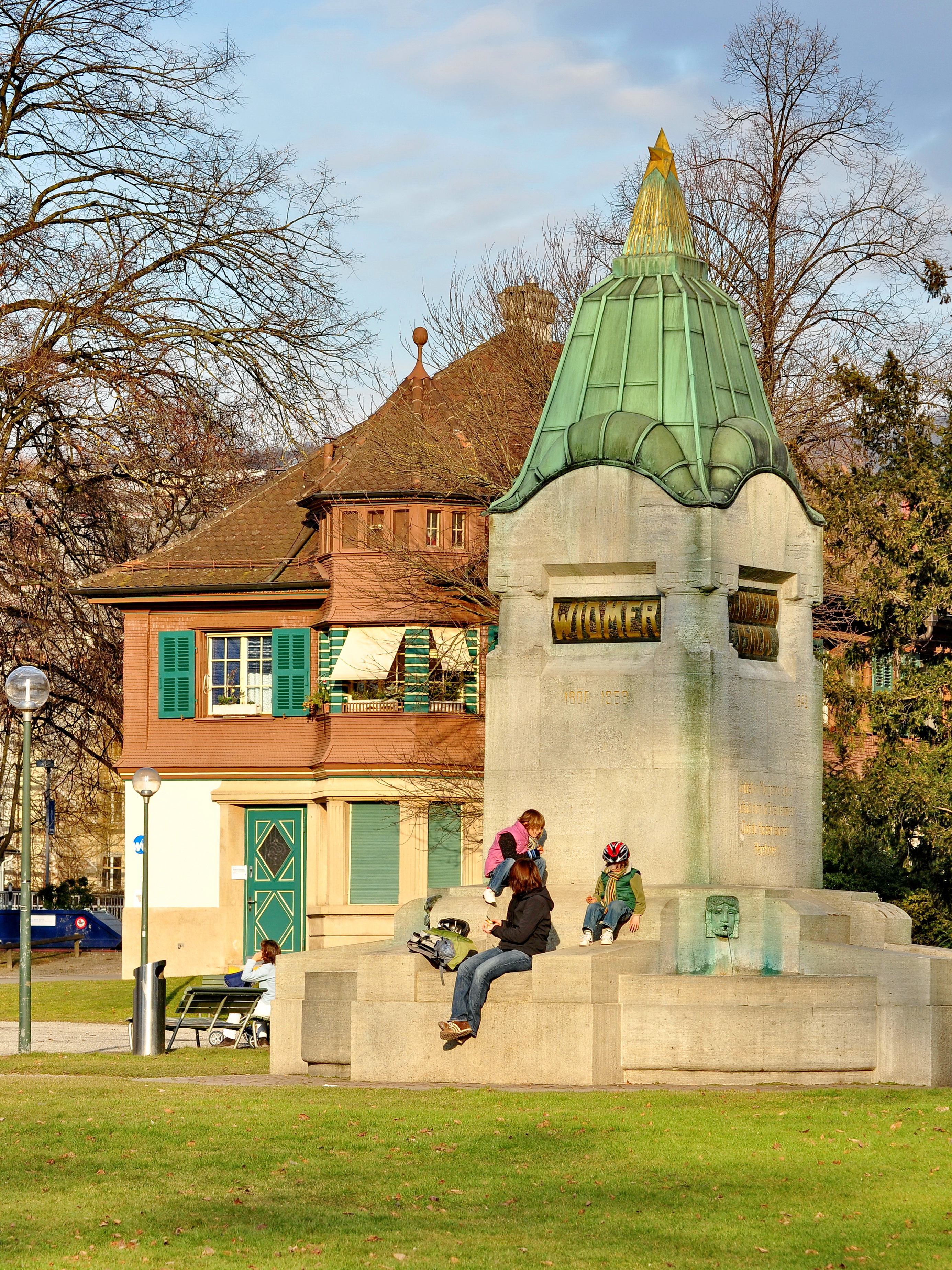 Zürich-Seefeld (Switzerland) : Memorial fountain dedicated to the composer Alberich Zwyssig and the poet Leonhard Widmer at so-called Zürichhorn.